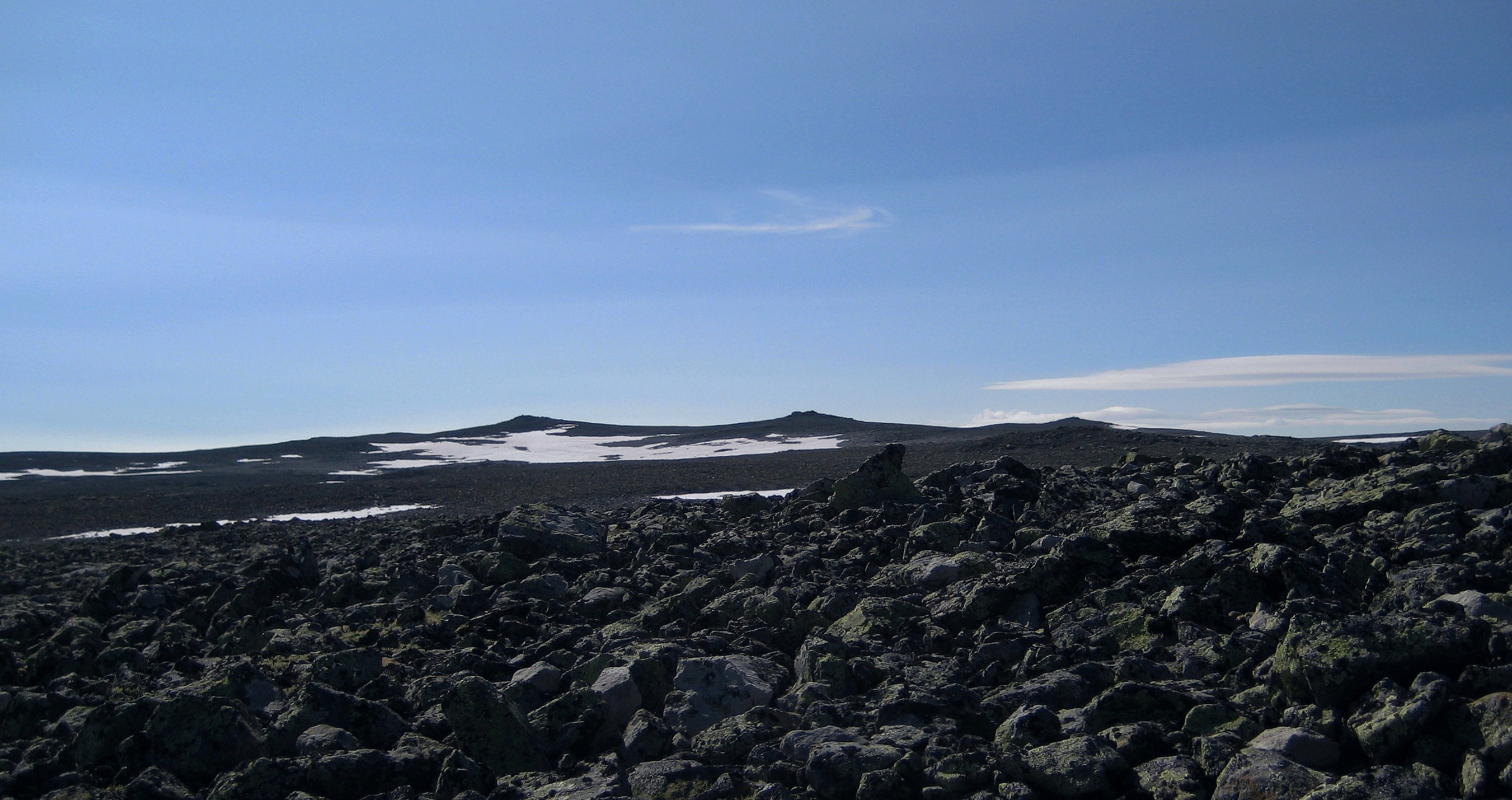 The highest part of Reineskarvet (1791 m), viewed from the east